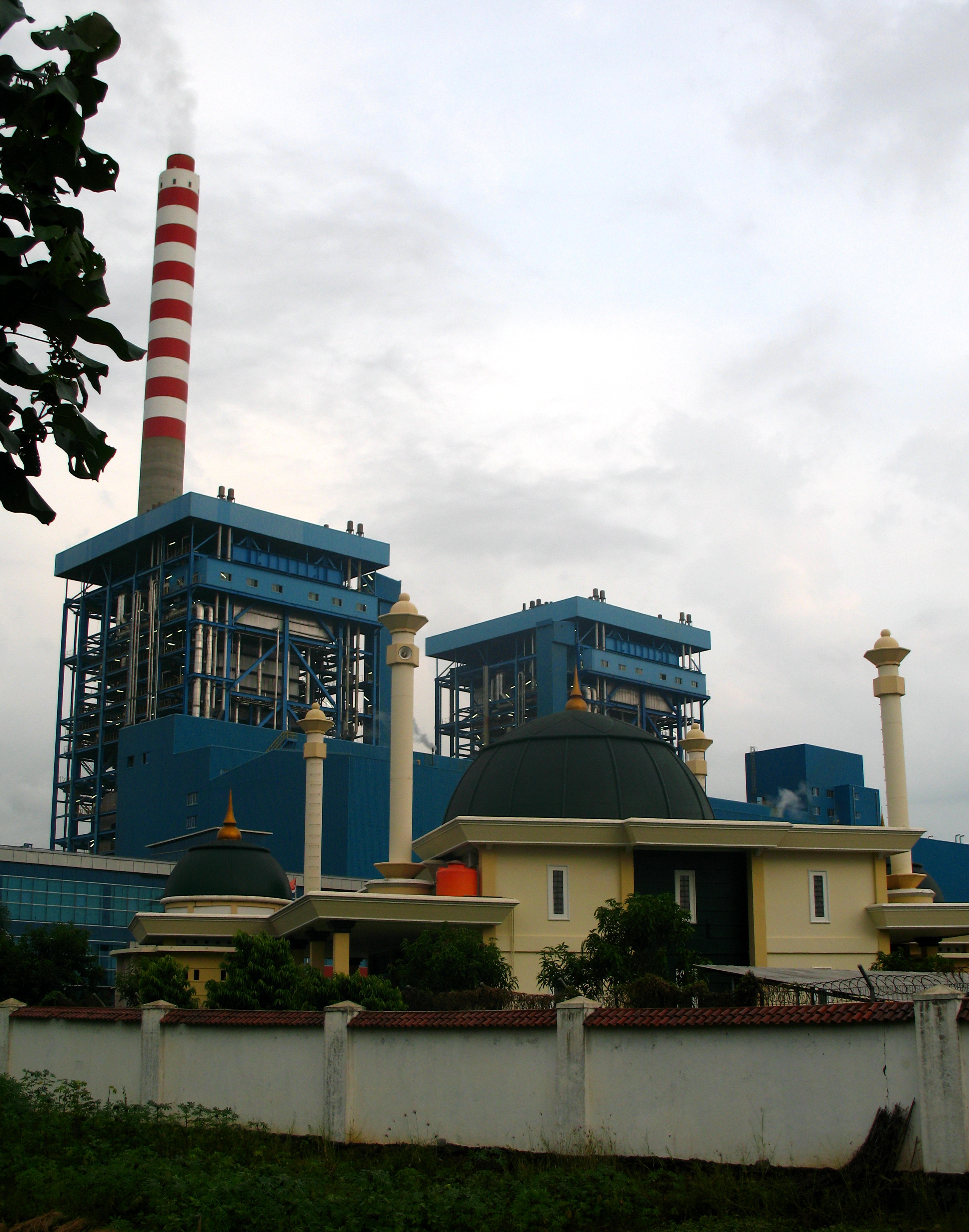 Cilacap's coal-fired power plant